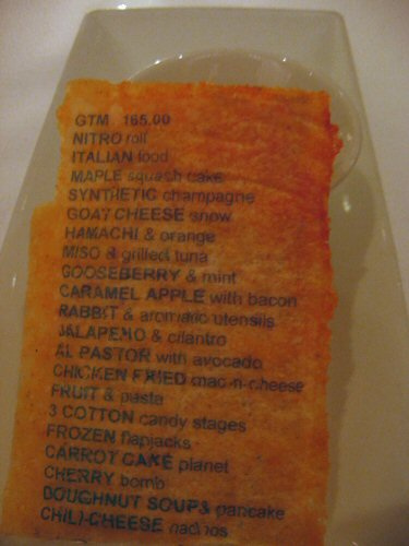 (Edible) Ten course tasting menu from Moto on Valentine's Day, 2007